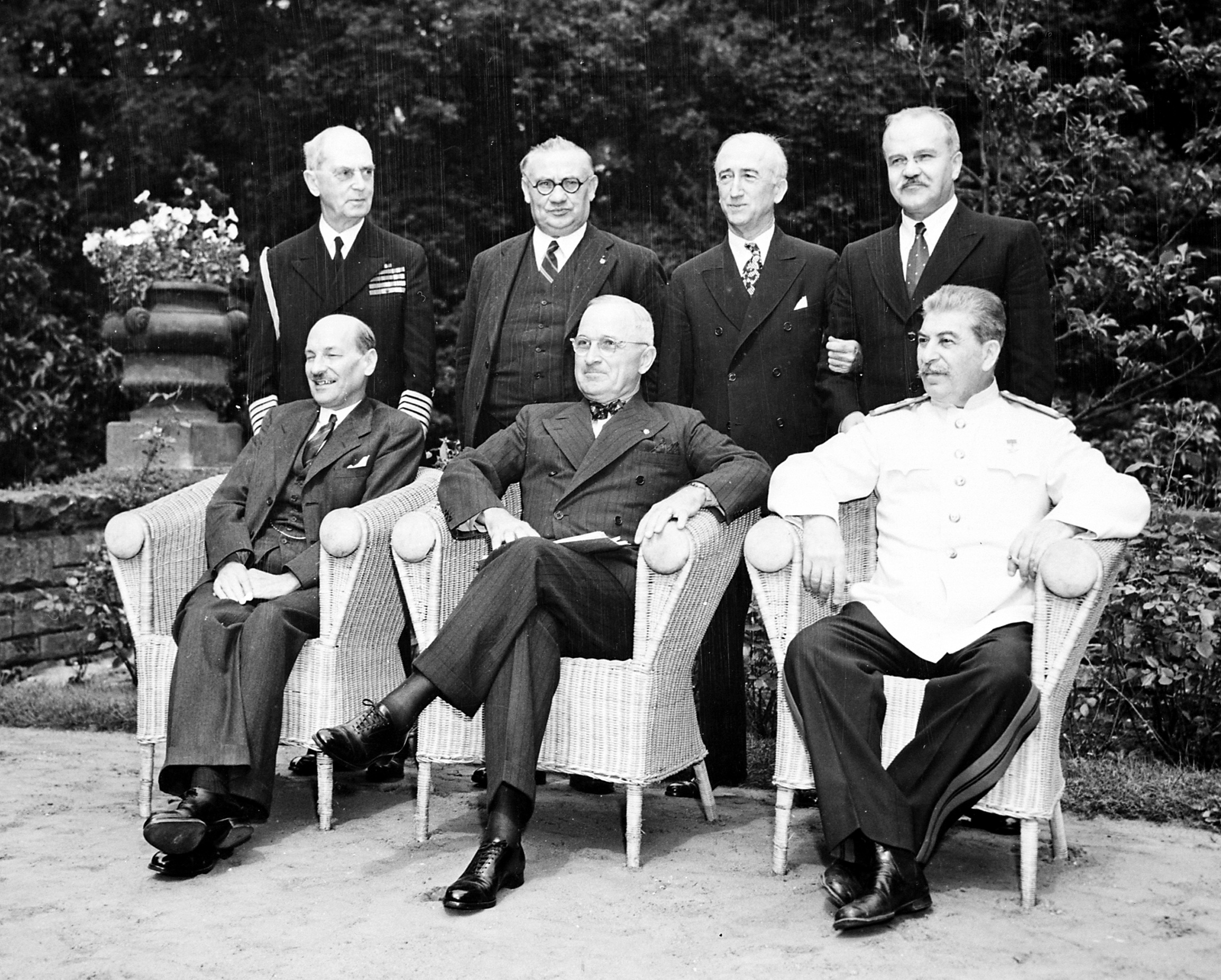 Seated in the garden of Cecilienhof Palace in Potsdam, Germany, L to R: British Prime Minister Clement Attlee, President Harry S. Truman, and Soviet Prime Minister Josef Stalin. L to R, behind them: Adm. William Leahy, British foreign minister Ernest Bevin, Secretary of State James Byrnes, and Soviet foreign minister Vyacheslav Molotov. They are all attending the Potsdam Conference.